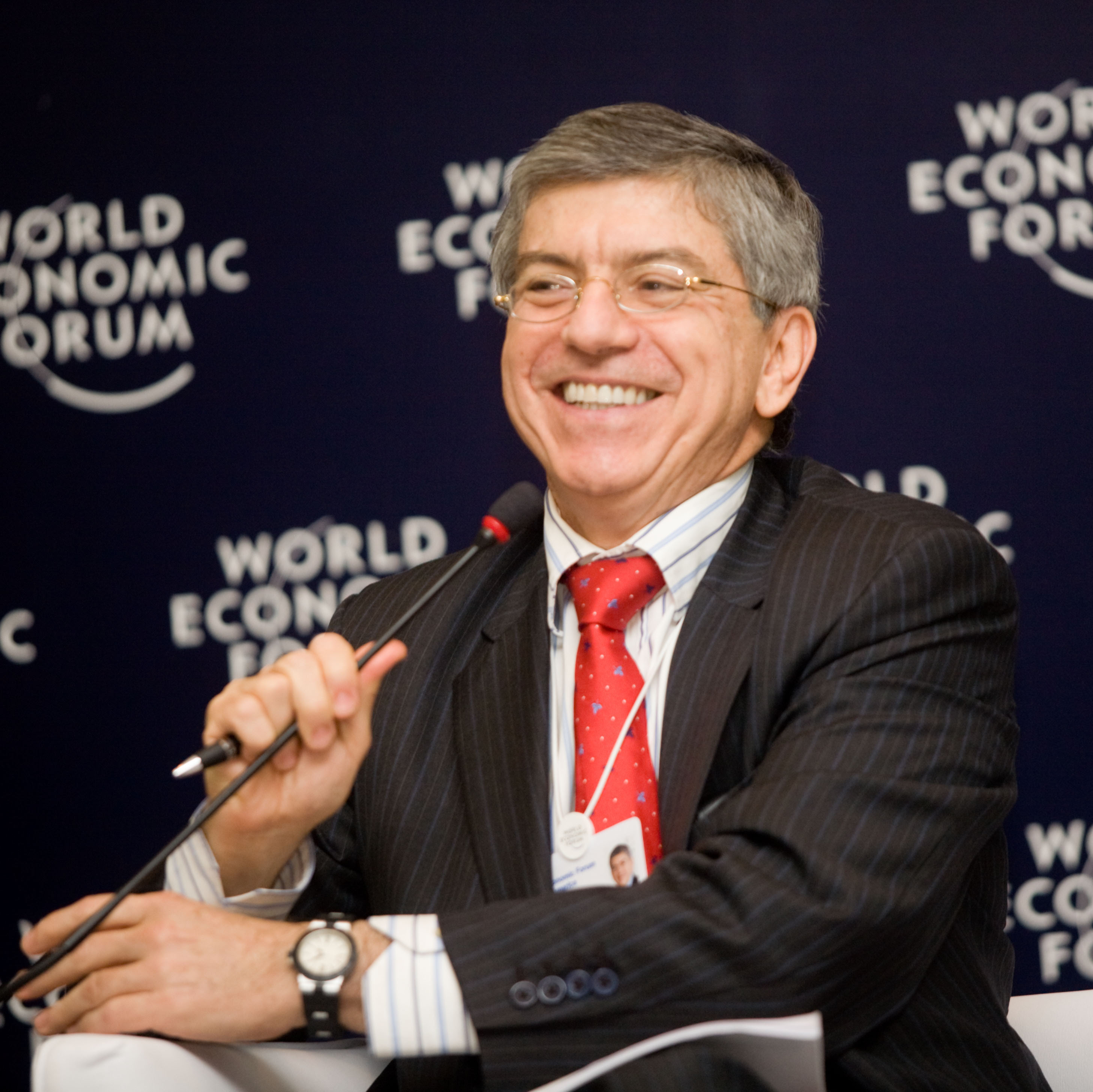 César Gaviria, Colombian politician, speaking at the World Economic Forum on Latin America 2009 in Rio de Janeiro, Brazil.